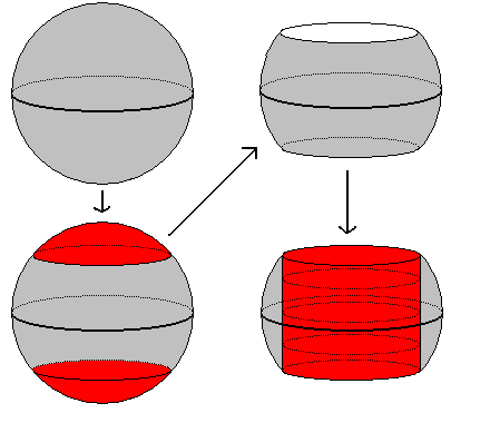 A surgery: take a sphere, remove two end caps, and insert a cylinder to get a torus (here looking rather like a thick napkin ring).